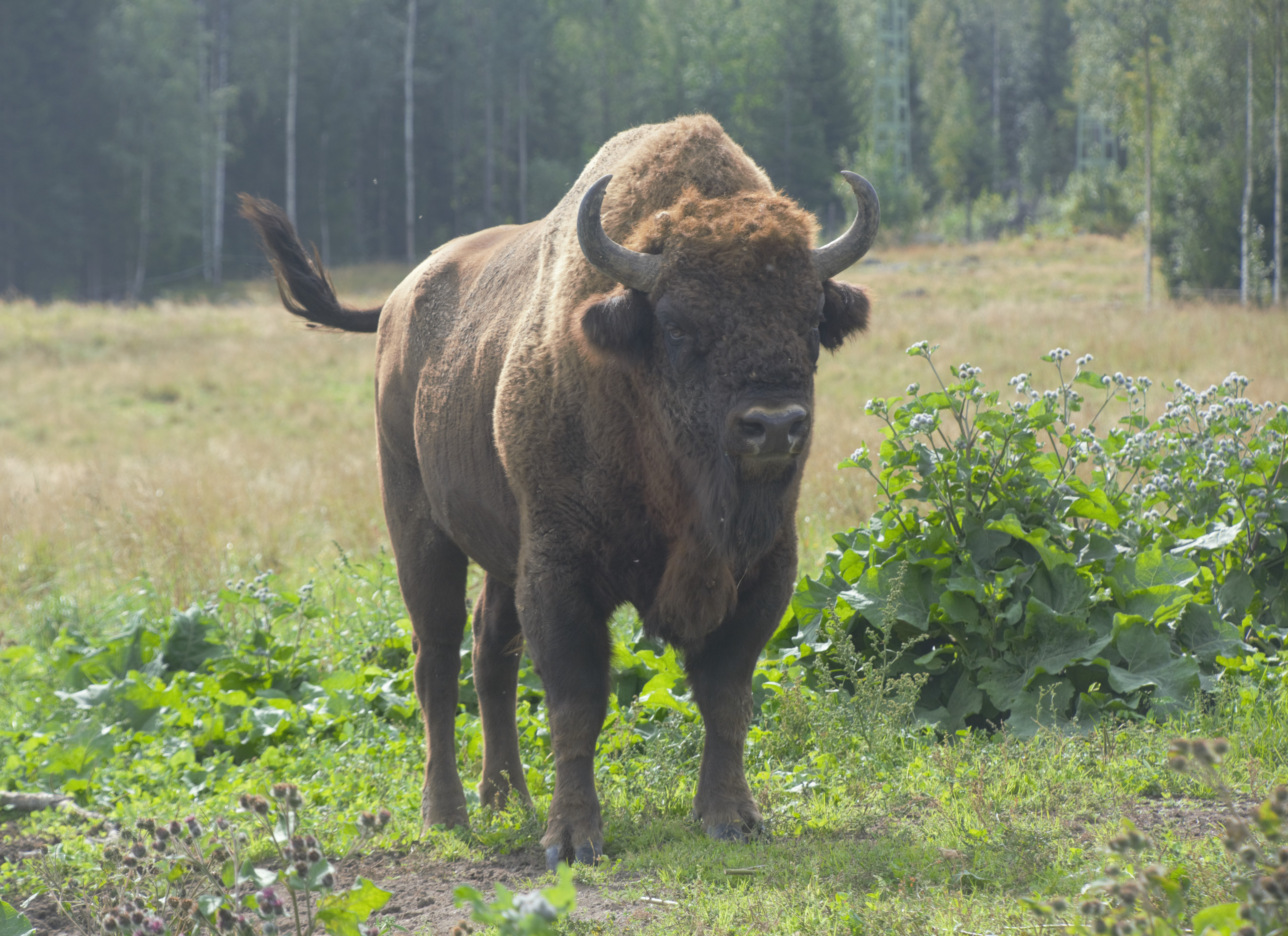 European bison bull at Avesta visentpark